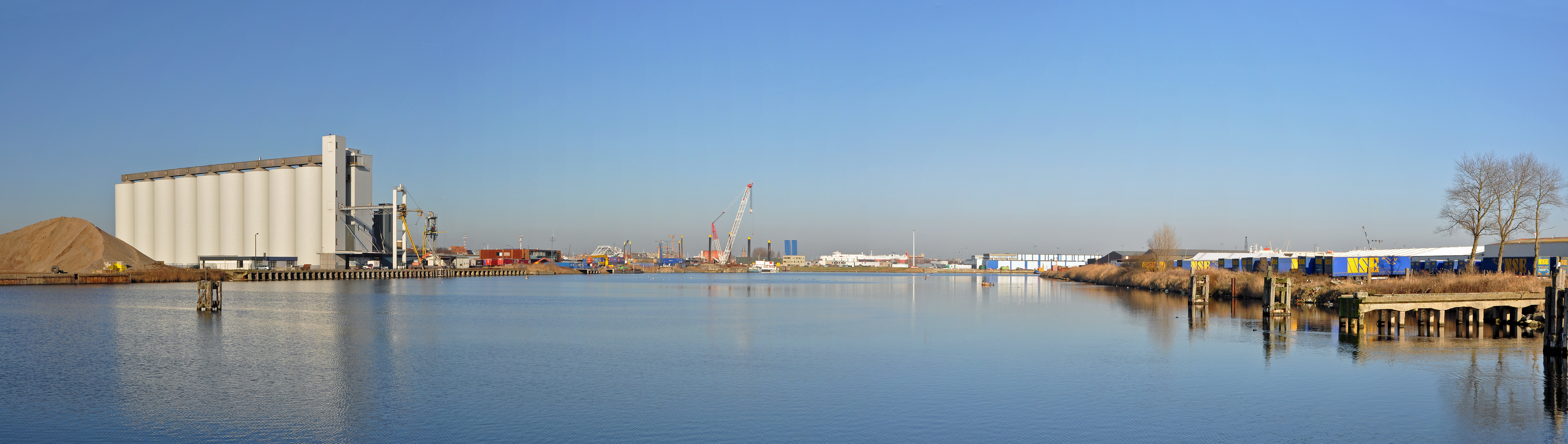 Zeebrugge (Bruges, Belgium): Prins Filipsdok (Prince Philip's dock)